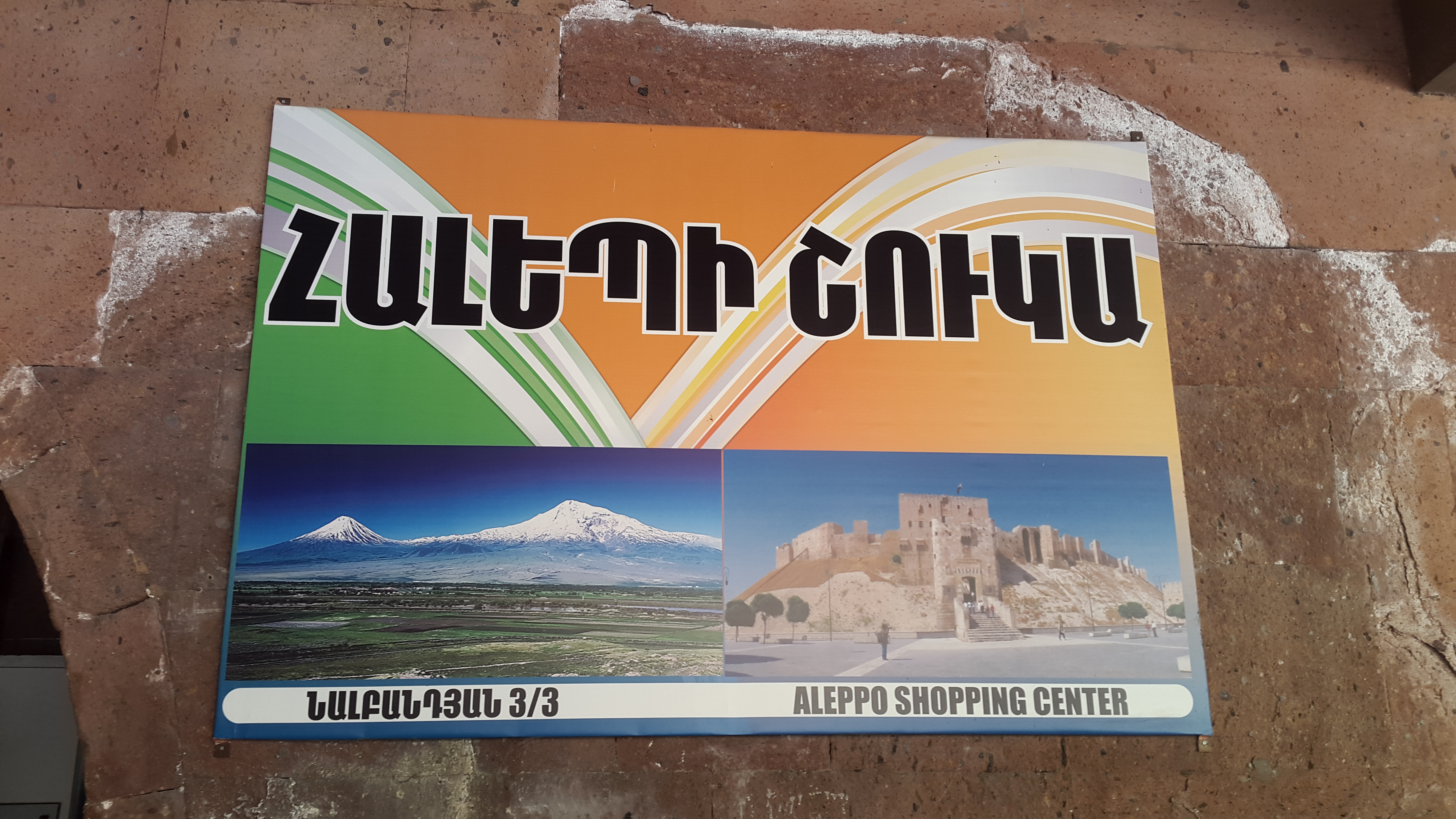 Aleppo market in Yerevan